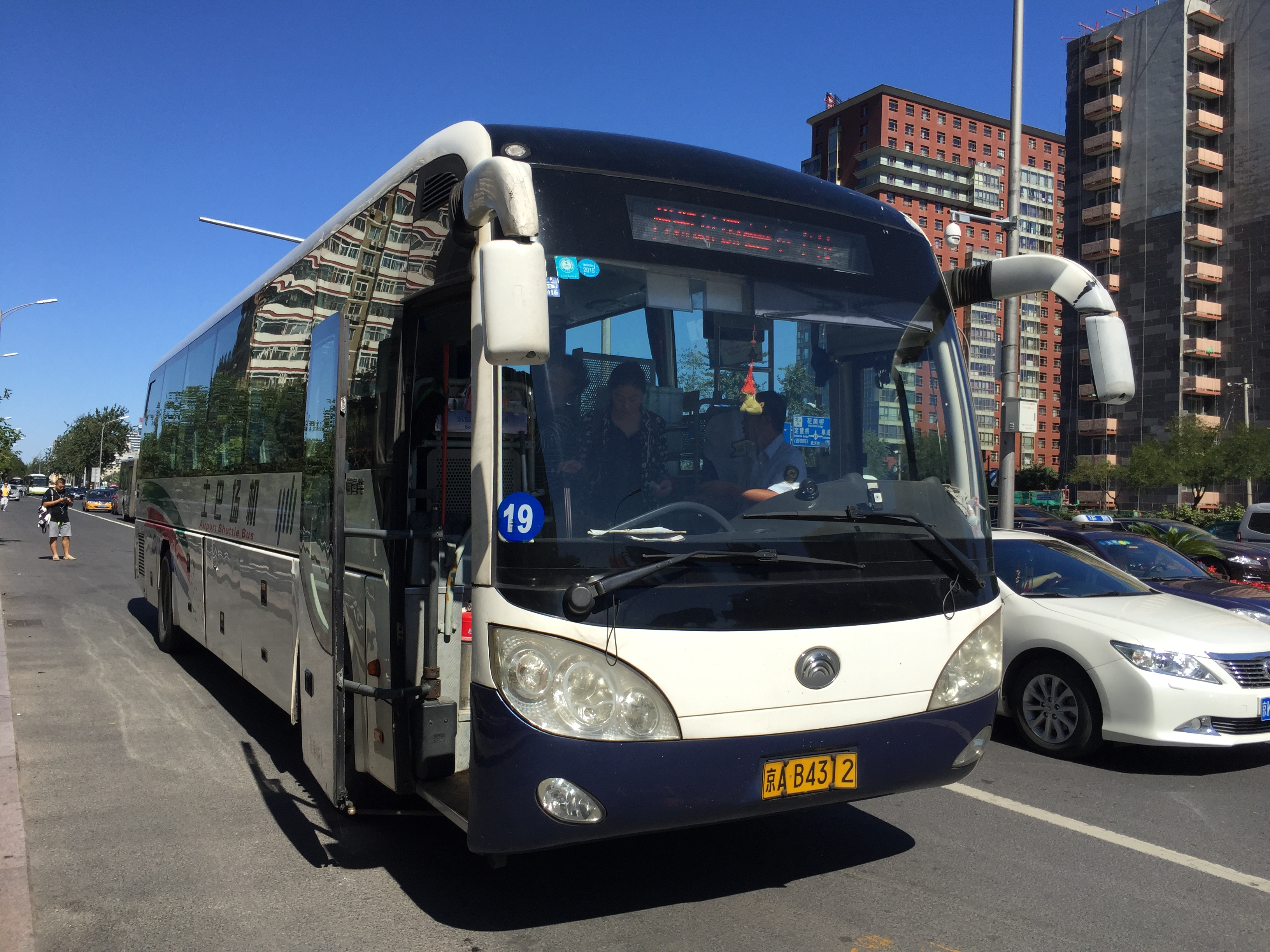 Model ZK6126HA. No.19 arrives shortly...